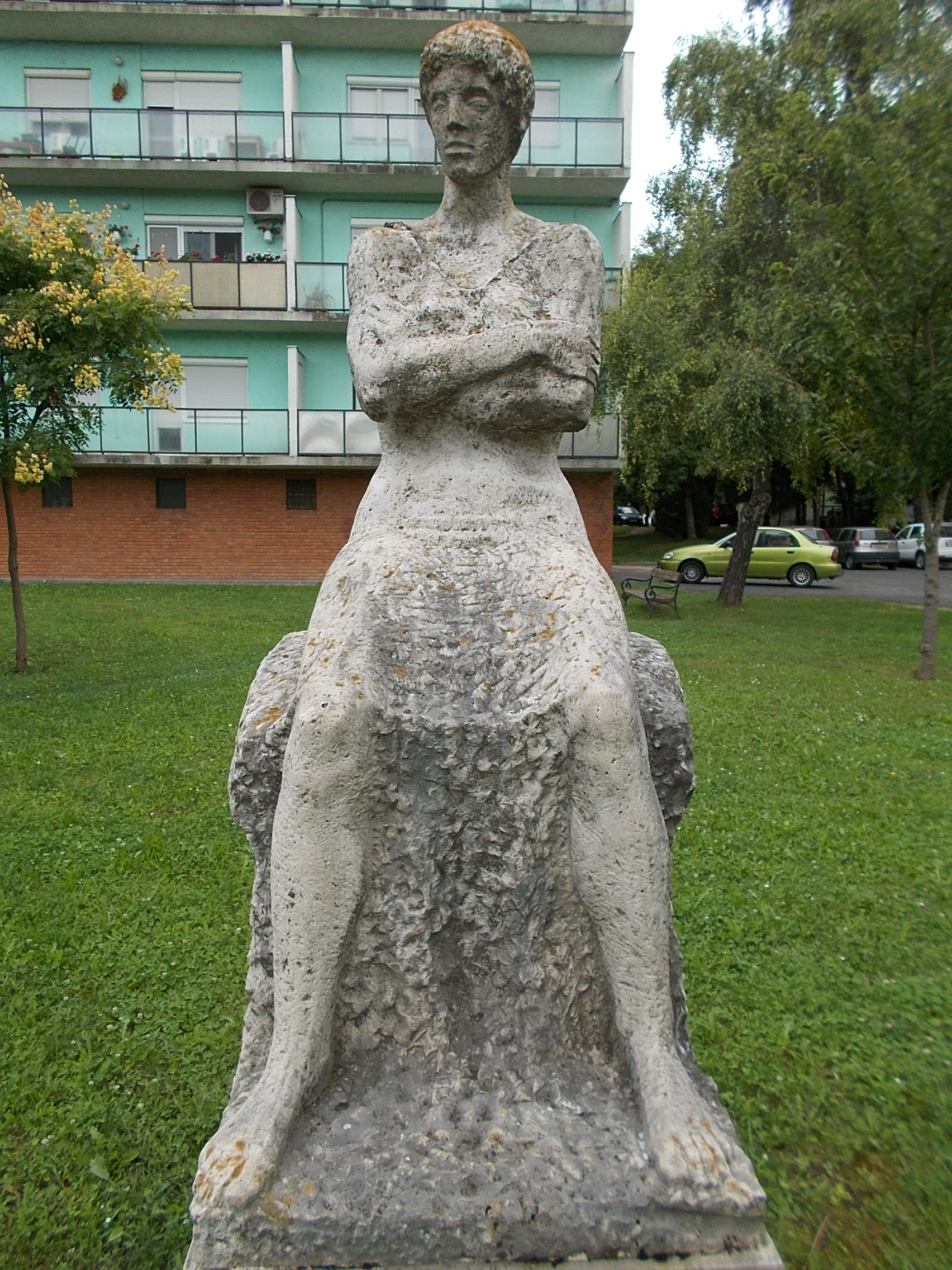 Sitting woman by Imre Veszprémi (1968). - Keszthely, Zala County, Hungary.